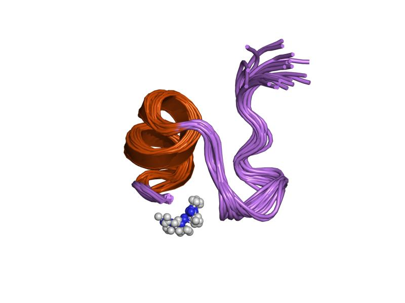 Cartoon representation of the molecular structure of protein registered with 1ter code.